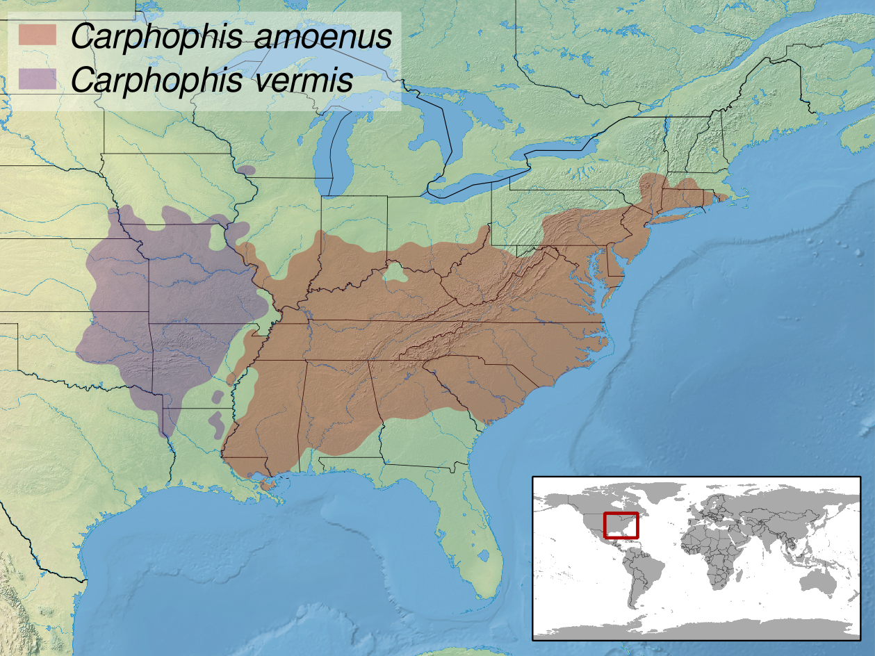 geographic distribution of the genus Carphophis (Native: United States). Included species for RDB: Carphophis amoenus and Carphophis vermis.